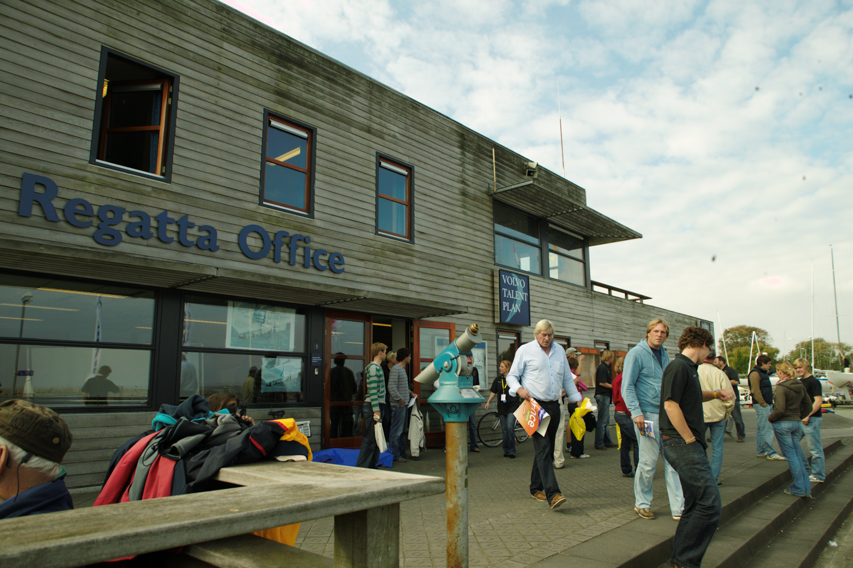 Regatta Center Medemblik